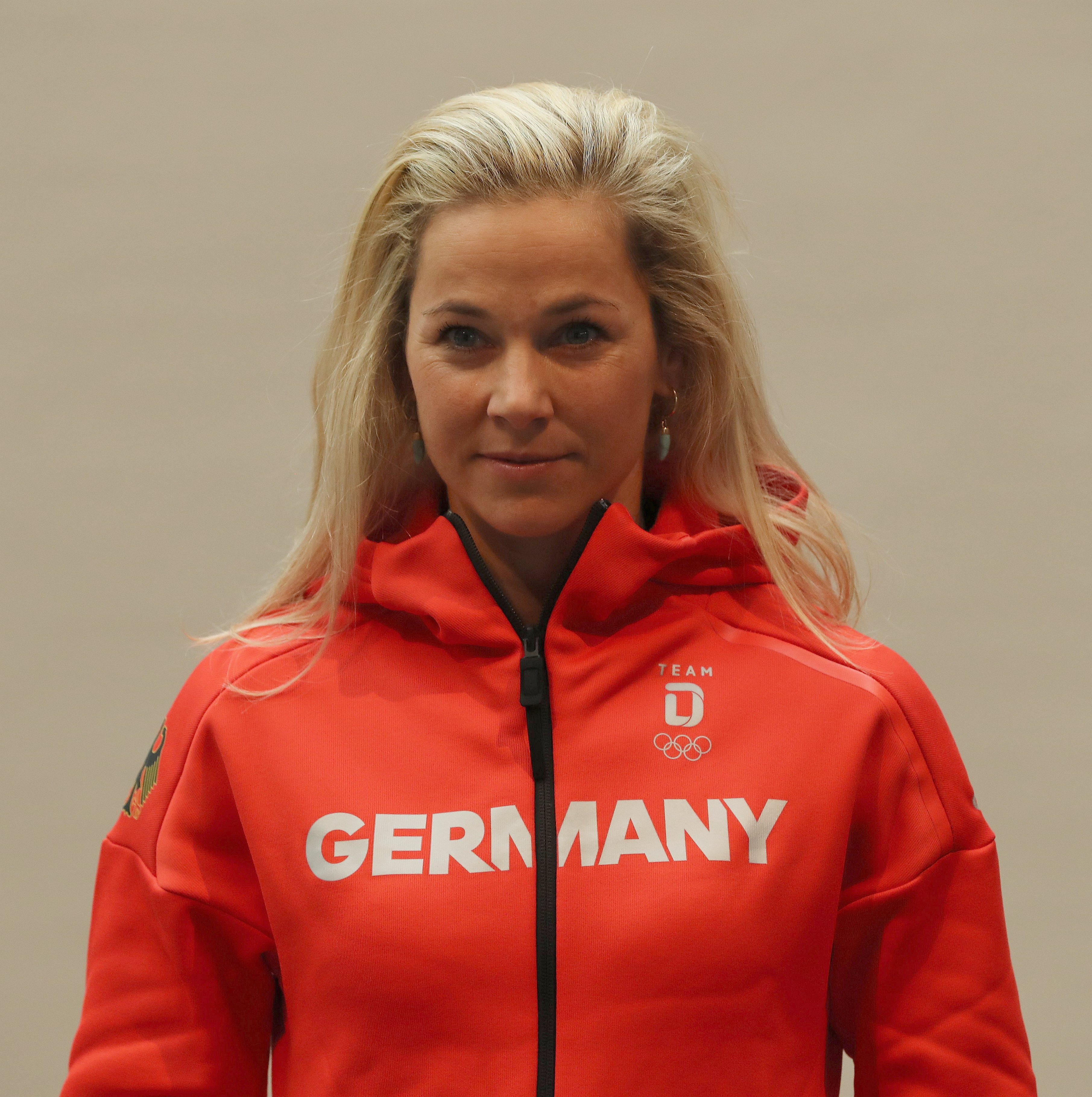 Portraits at the Clothing of the German team for Winter Olympics 2018 in Pyeonchang.